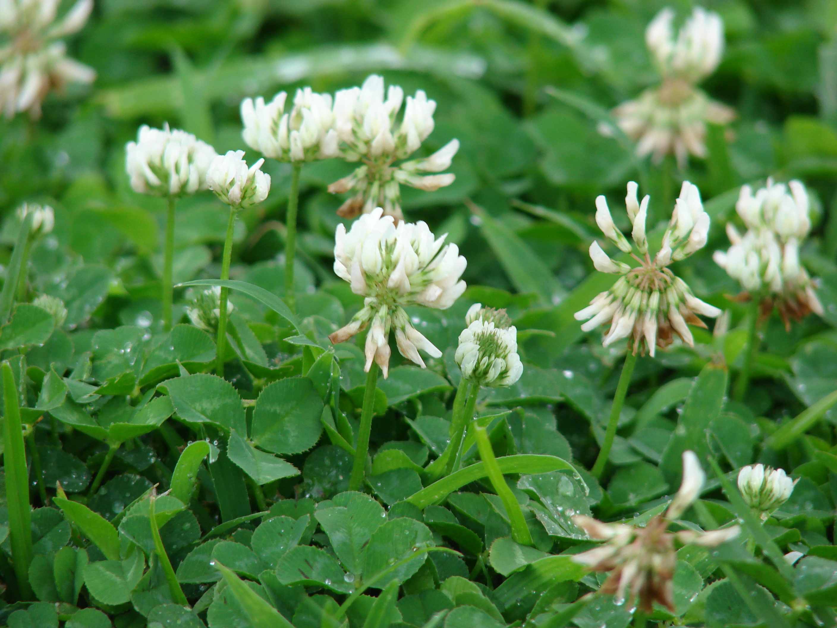 Trifolium repens (flowers and leaves). Location: Maui, Pulehu